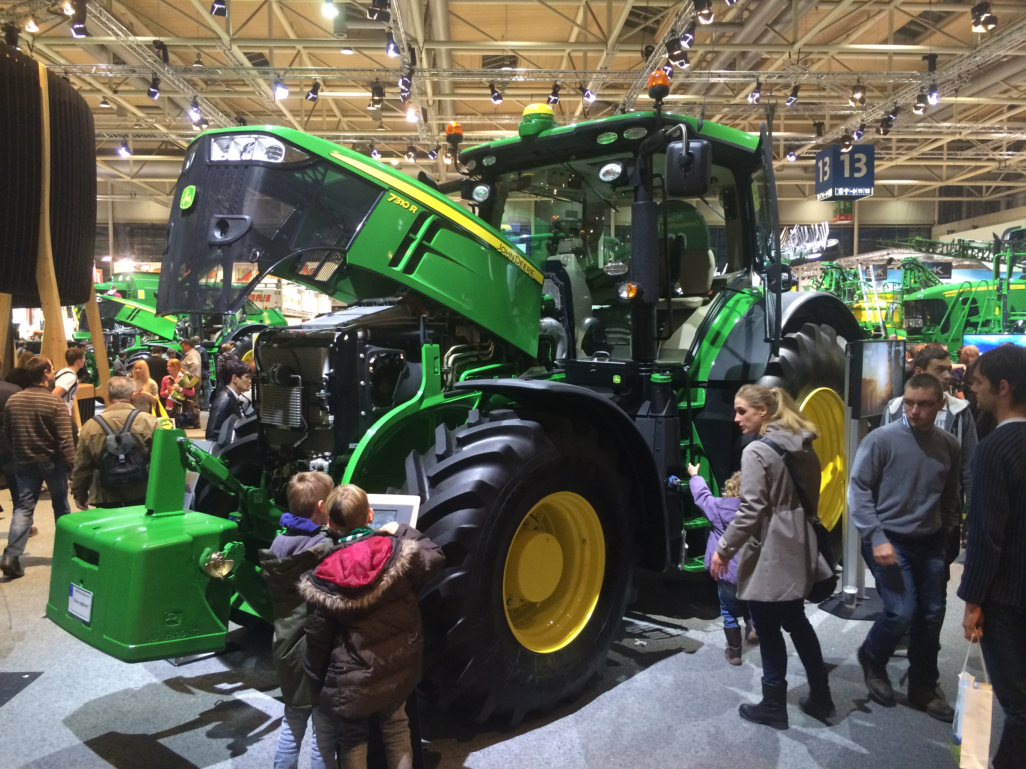 John Deere 7310 R, Agritechnica